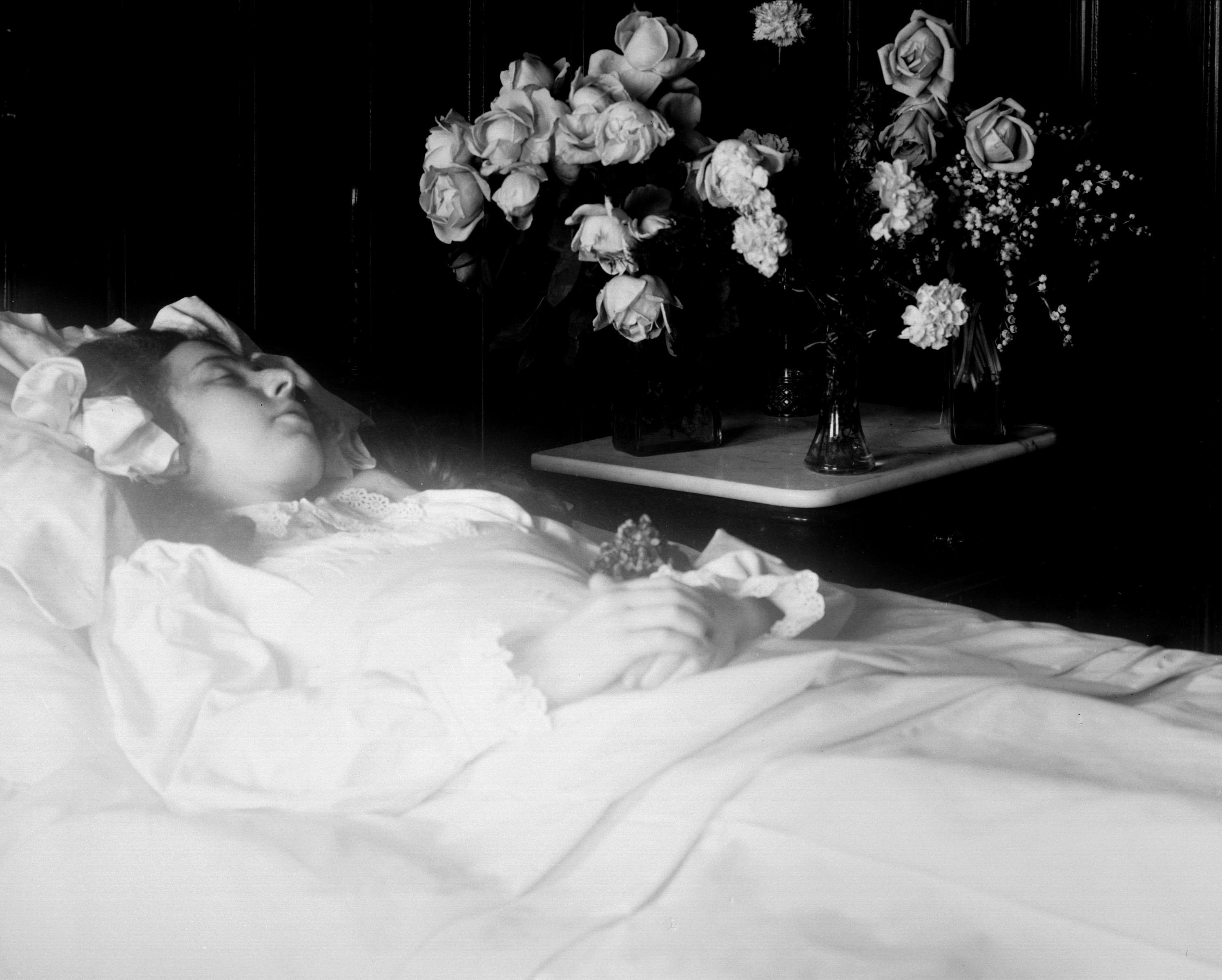 Post mortem-photography of a young Norwegian girl. Photographed in 1911 by Gustav Borgen. Photo collection, Norsk Folkemuseum, Oslo.